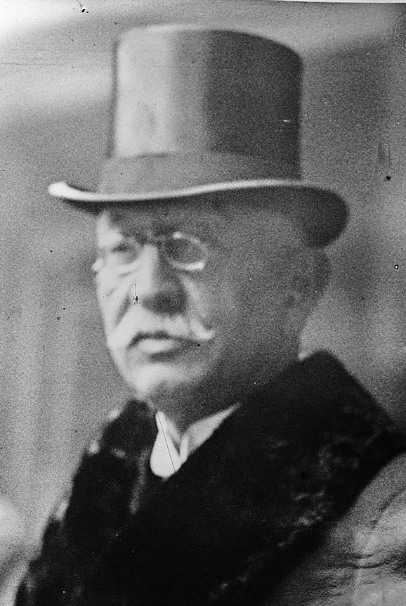 Photograph of Bekir Sami Kunduh, Turkish politician (1920s)